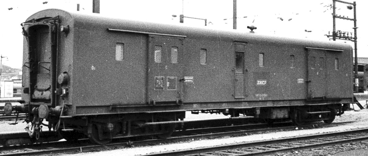 Fourgon métallisé Est à bogies.